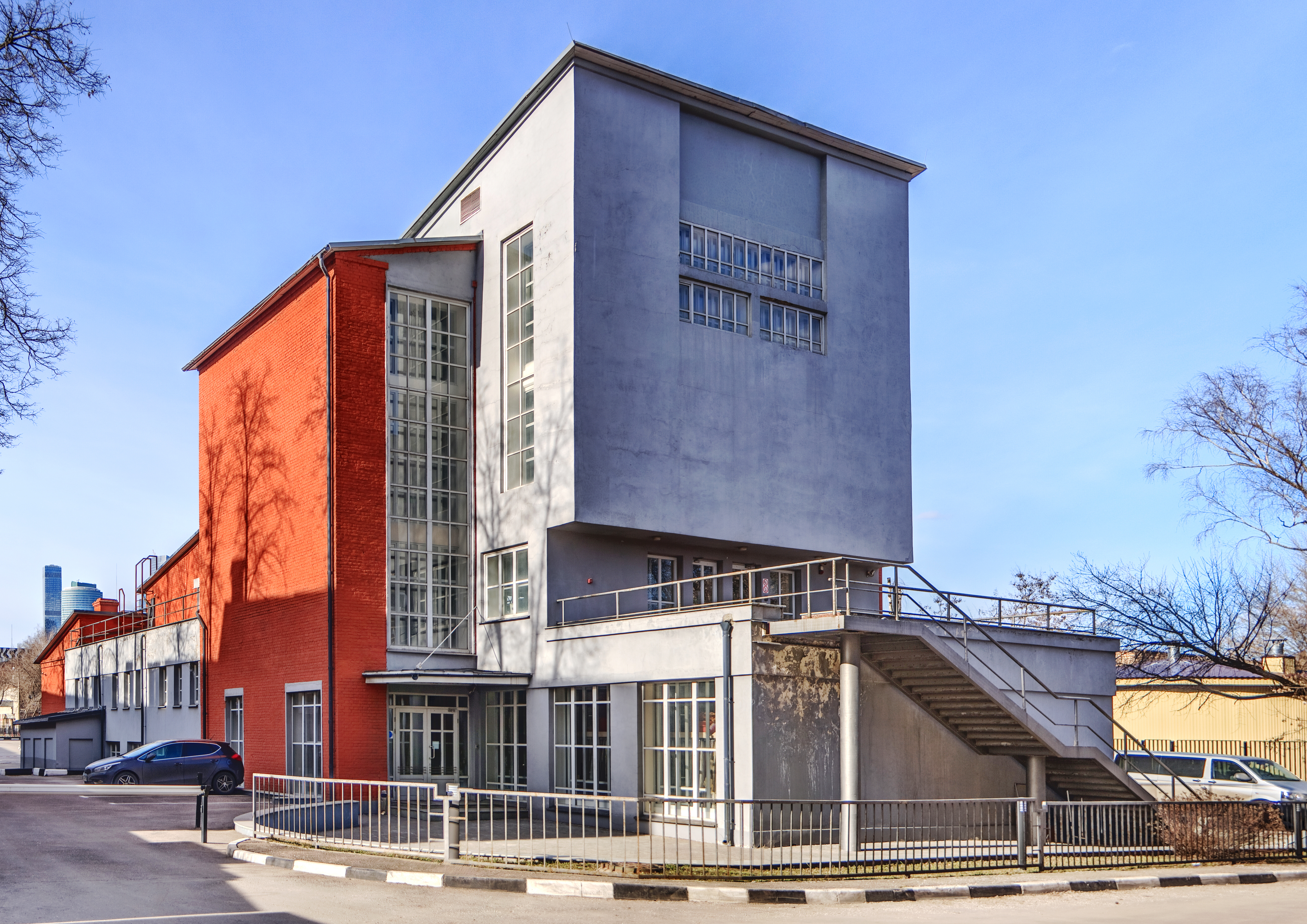 Club of Dorogomilovsky chemical plant, Berezhkovskaya Embankment 28, Moscow